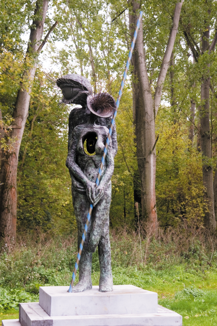 Lubo Kristek: The Seeking Ones, 2005-6, bronze, hight: ca. 300 cm